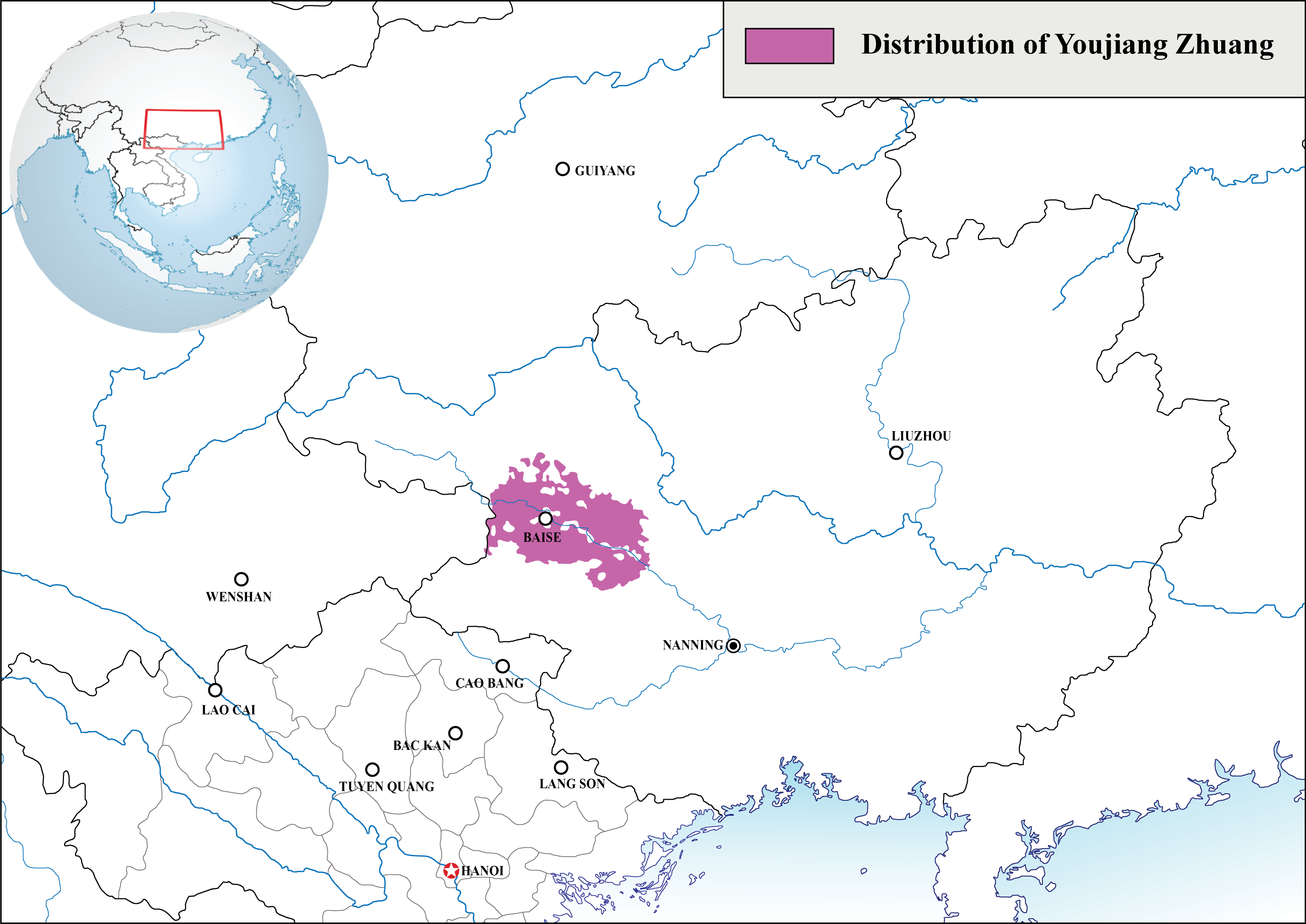 Geographic distribution of Youjiang Zhuang dialect Source: Major Zhuang Language Groups and Related Peoples (Joshuaproject) [1]. Its vector version can be found here: Youjiang Zhuang.svg